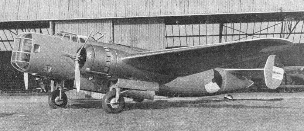 Fokker T.V photo from L'Aerophile October 1937